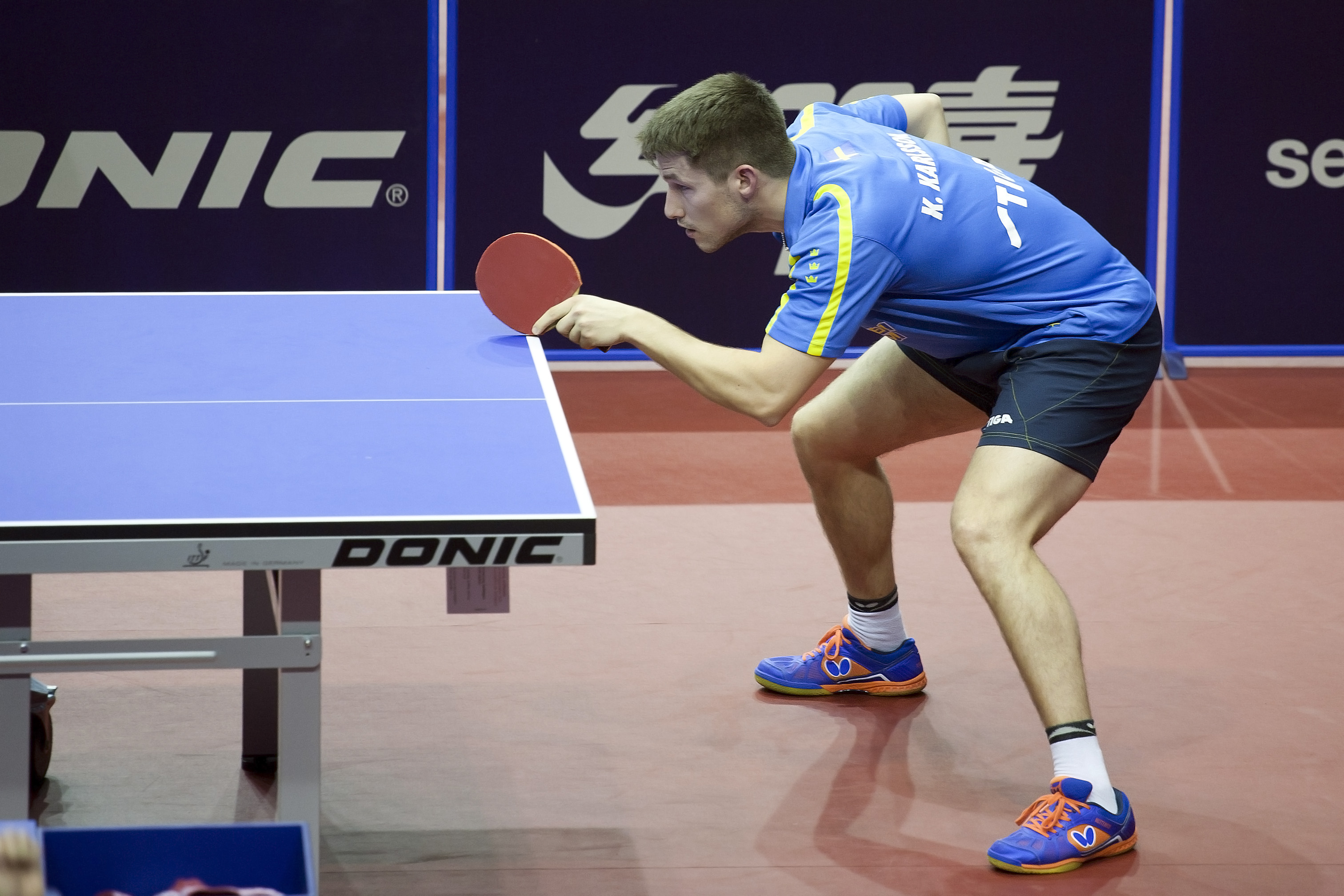 ITTF World Tour 2017 German Open, Magdeburg, Germany, 7 Nov 2017 - 12 Nov 2017, Kristian Karlsson